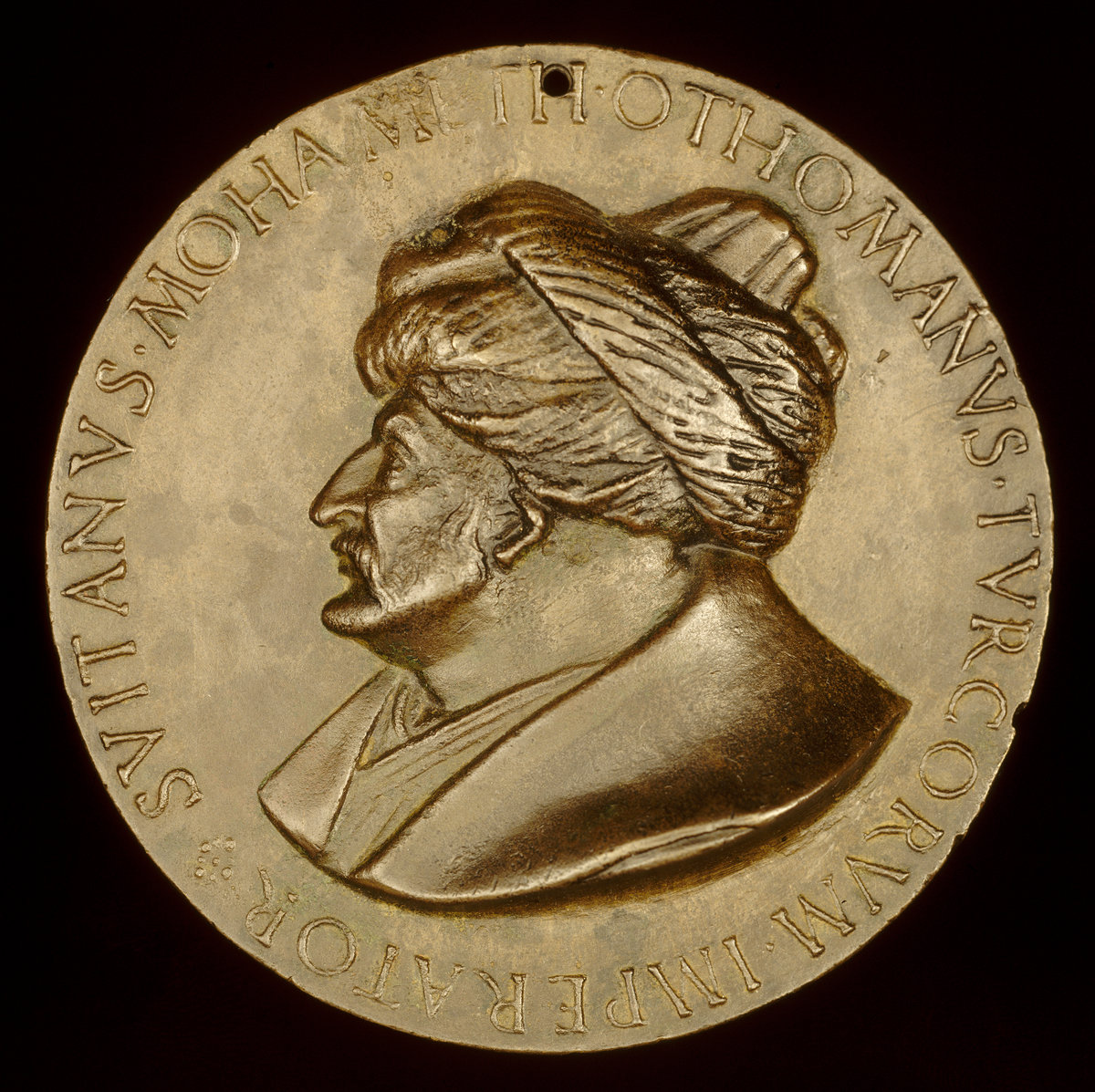 Sultan of the Ottoman Empire; Mehmed II (Mehmed the Conqueror) (1432-1481).